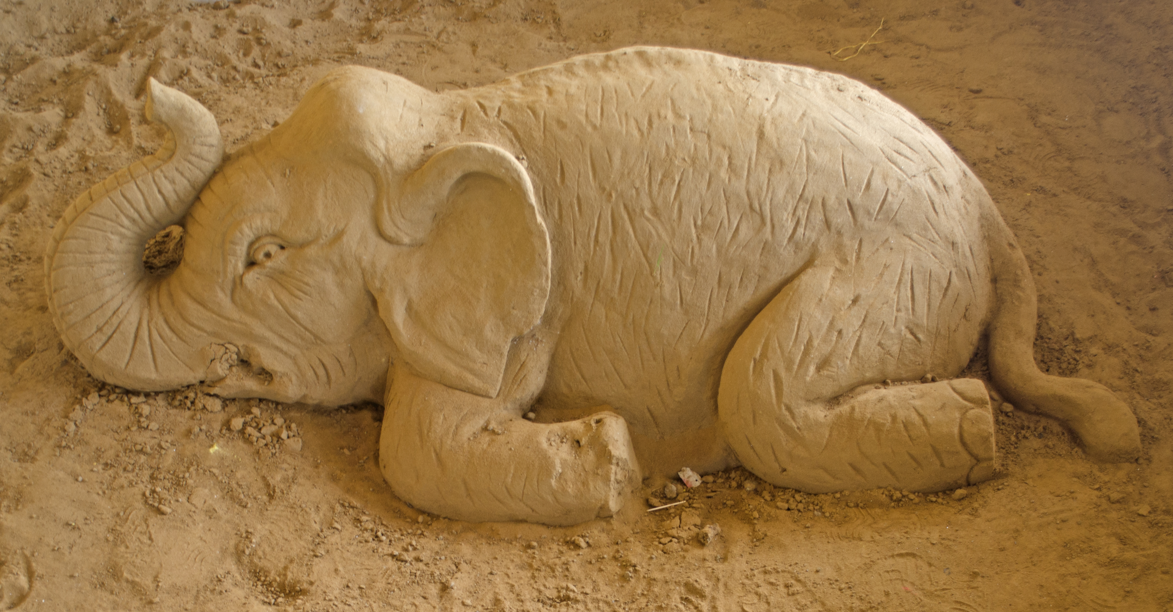 Sand art of a Baby Elephant